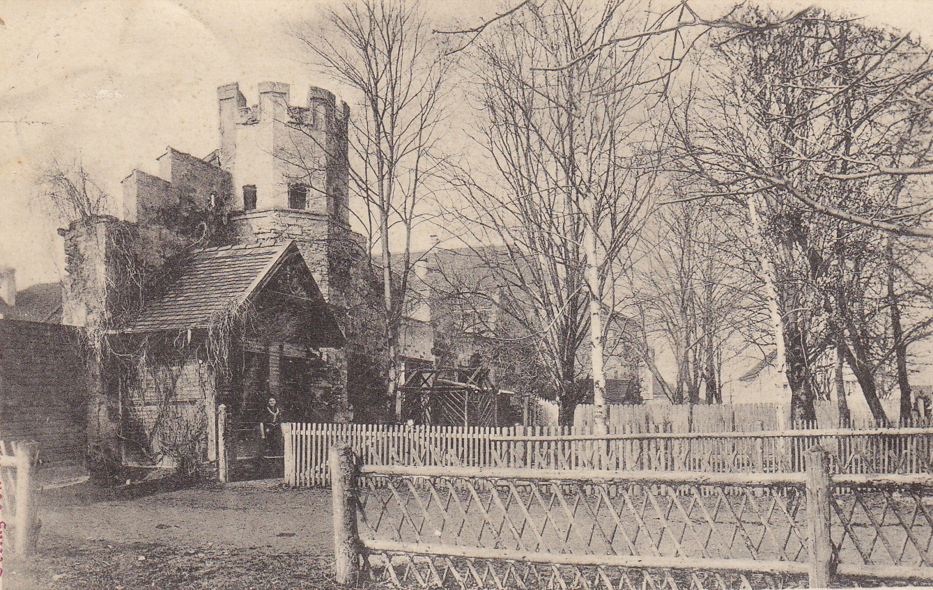 City walls in Weilheim in Upper Bavaria at the Vötterlgasse; detail of picture postcard